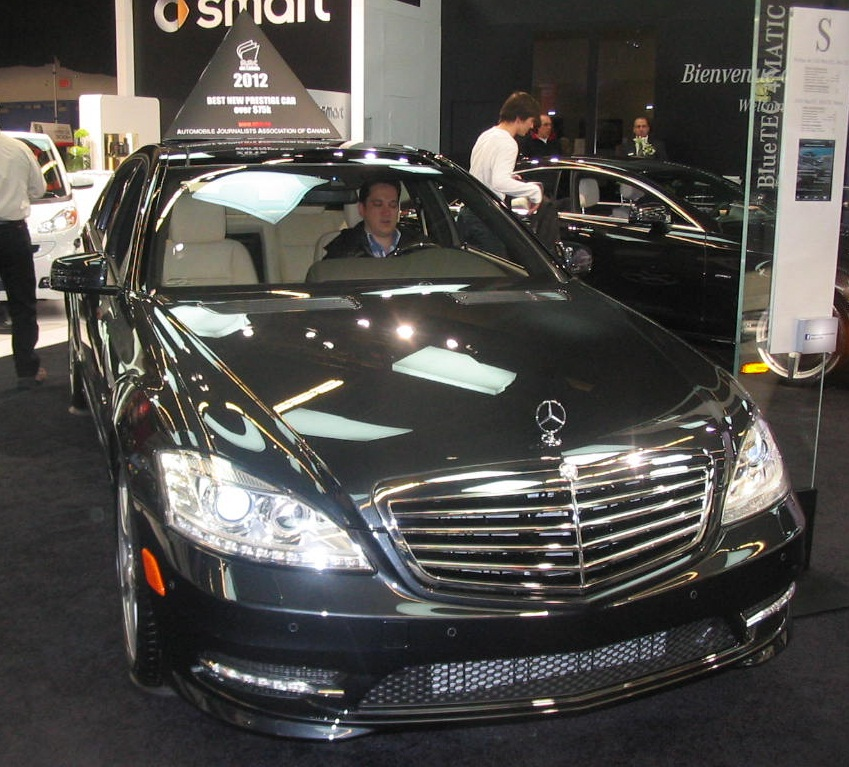 2012 Mercedes-Benz S-Class photographed in Montreal, Quebec, Canada at the 2012 Montreal International Auto Show.